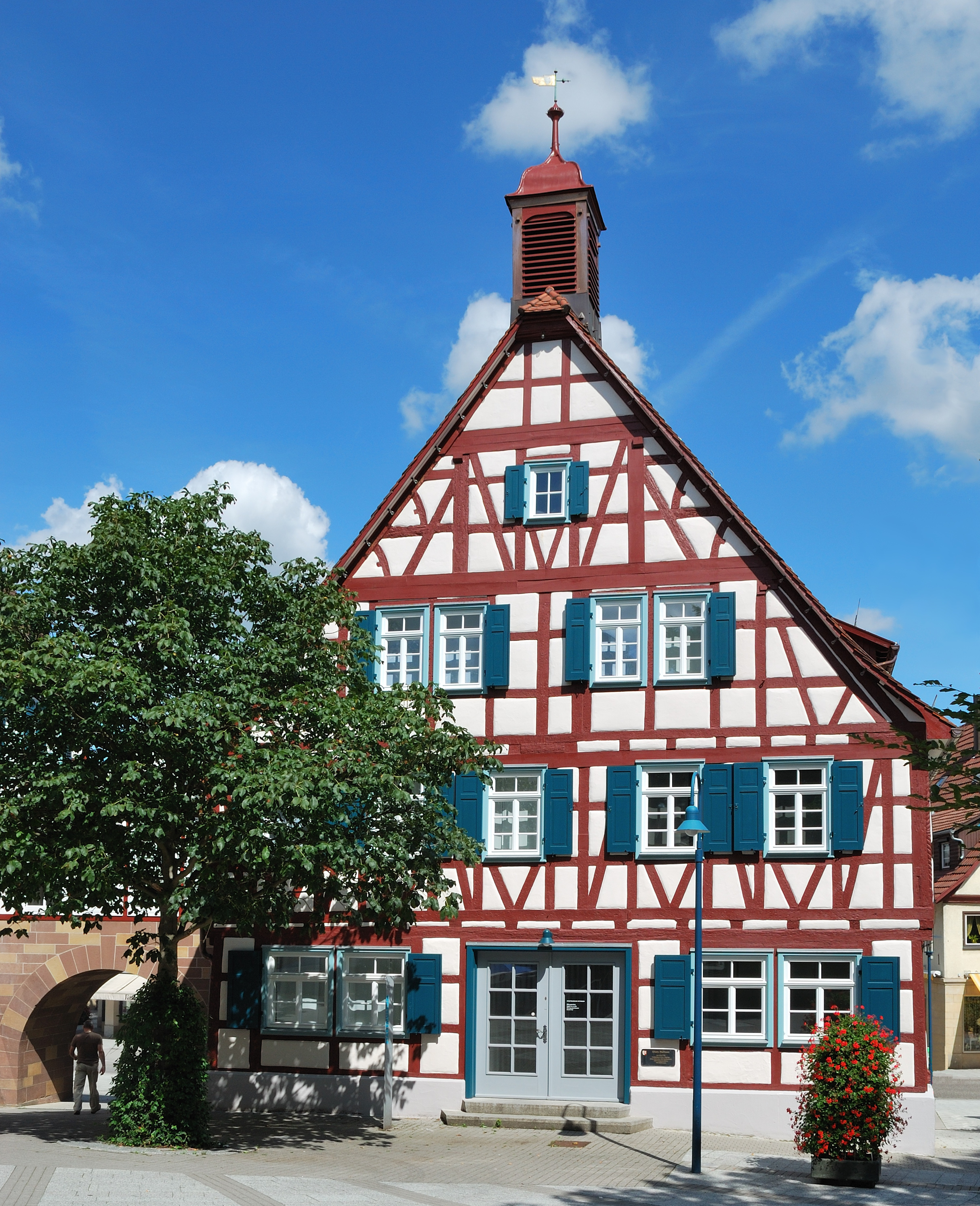 The former municipal hall in Ditzingen, Baden-Württemberg, Germany. The timber framed building from 1738 serves since 1993 as the town museum.